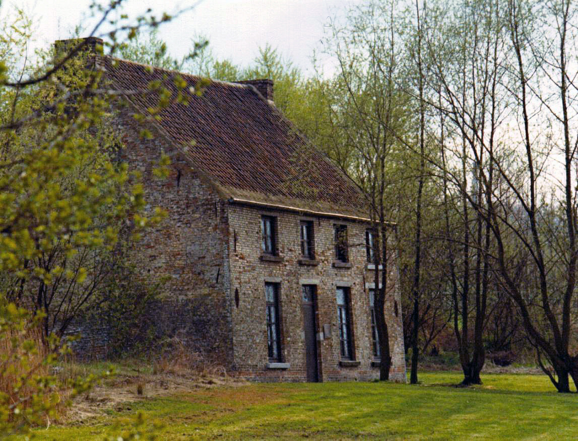 Cuesmes (Belgium), the Van Gogh house.